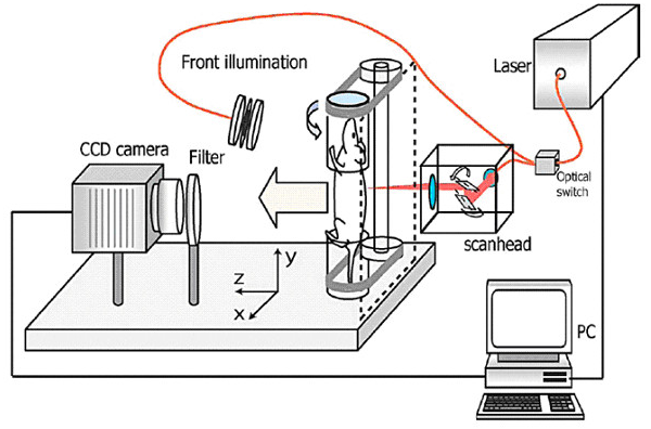 Schematic of free-space 360 degree projection fluorescence-mediated molecular tomography imaging system (FMT)